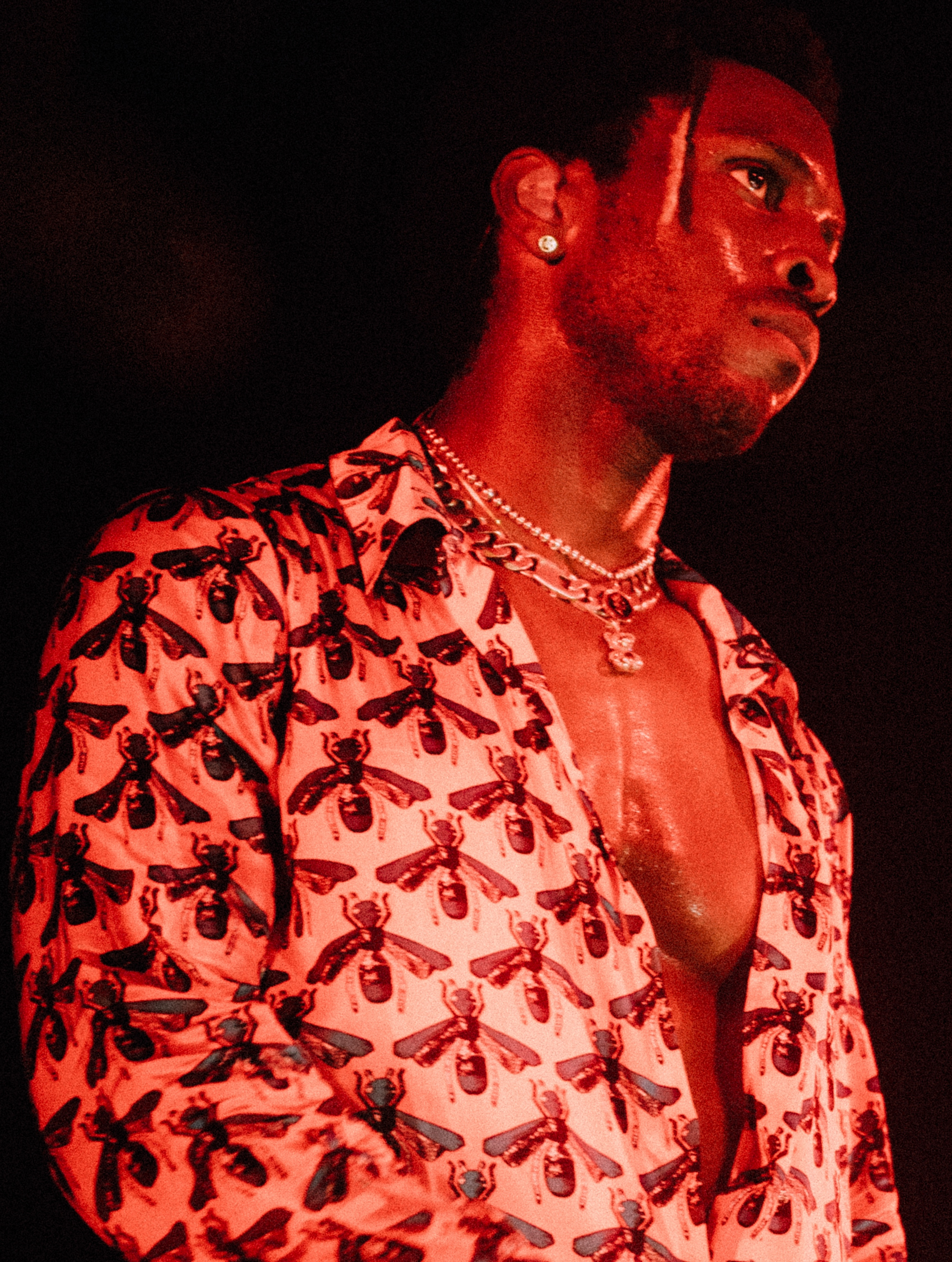 SAINt JHN in May 2018